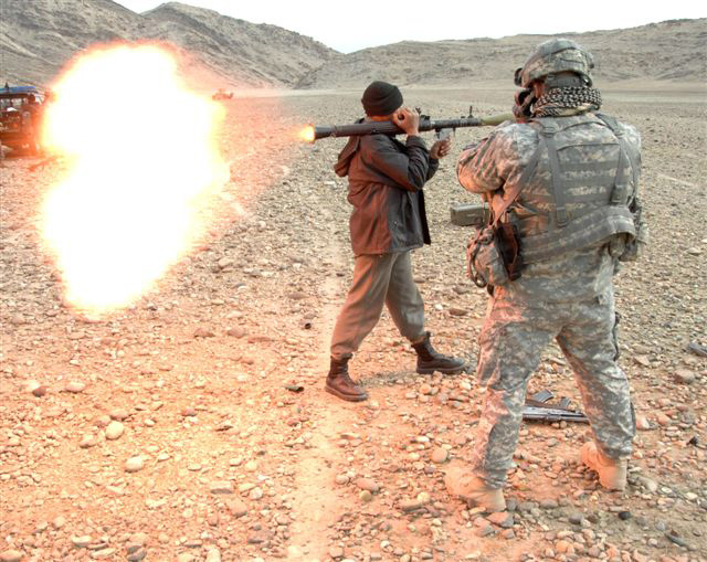 U.S. Army Staff Sgt. Johnson coaches an Afghan National Police officer as he fires a rocket-assisted grenade launcher during a skills assessment mission on a range in Beshud, Afghanistan, Feb. 13, 2008. (U.S. Army photo by Spc. Justin French) (